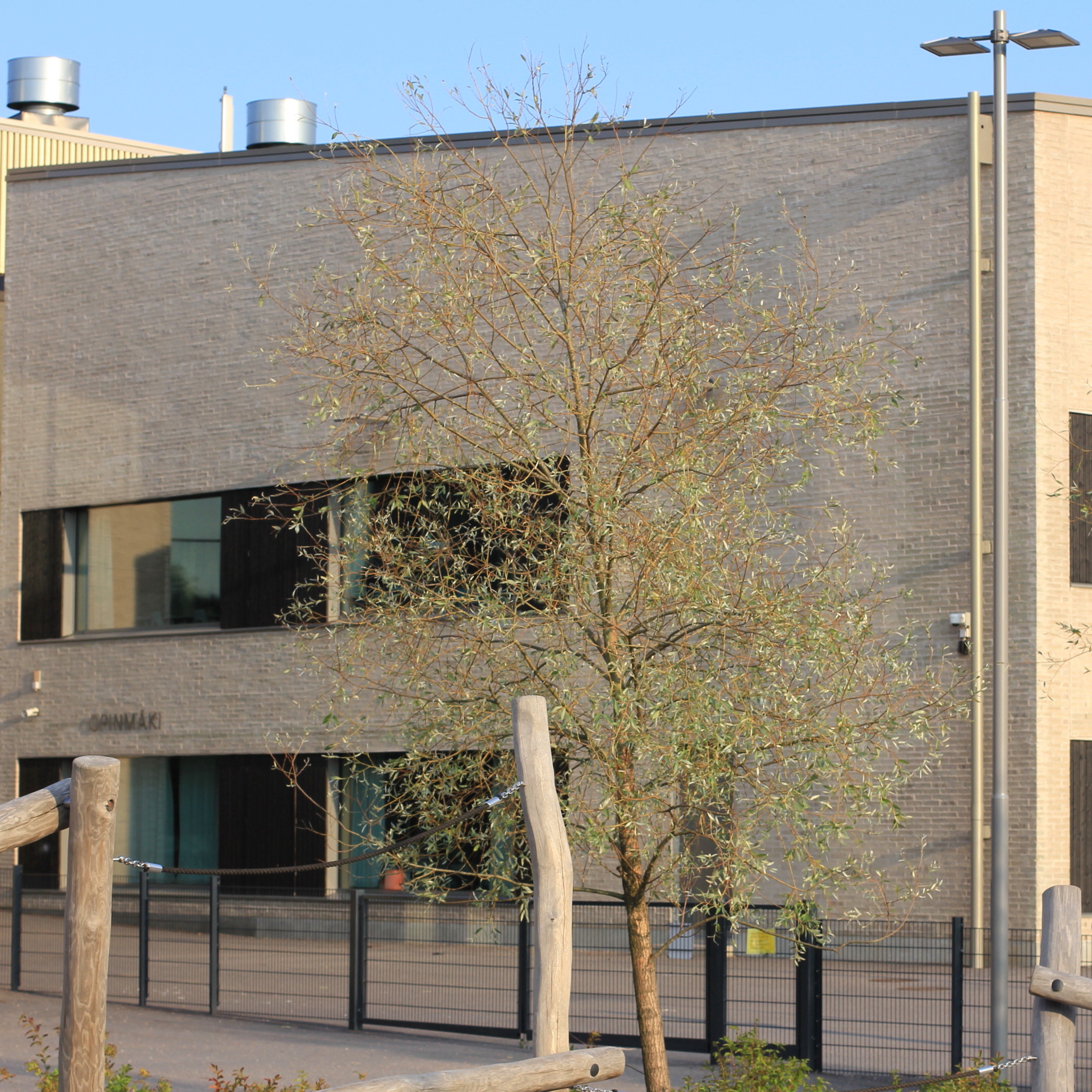 Opinmäki campus, Espoo, Finland. - School building.